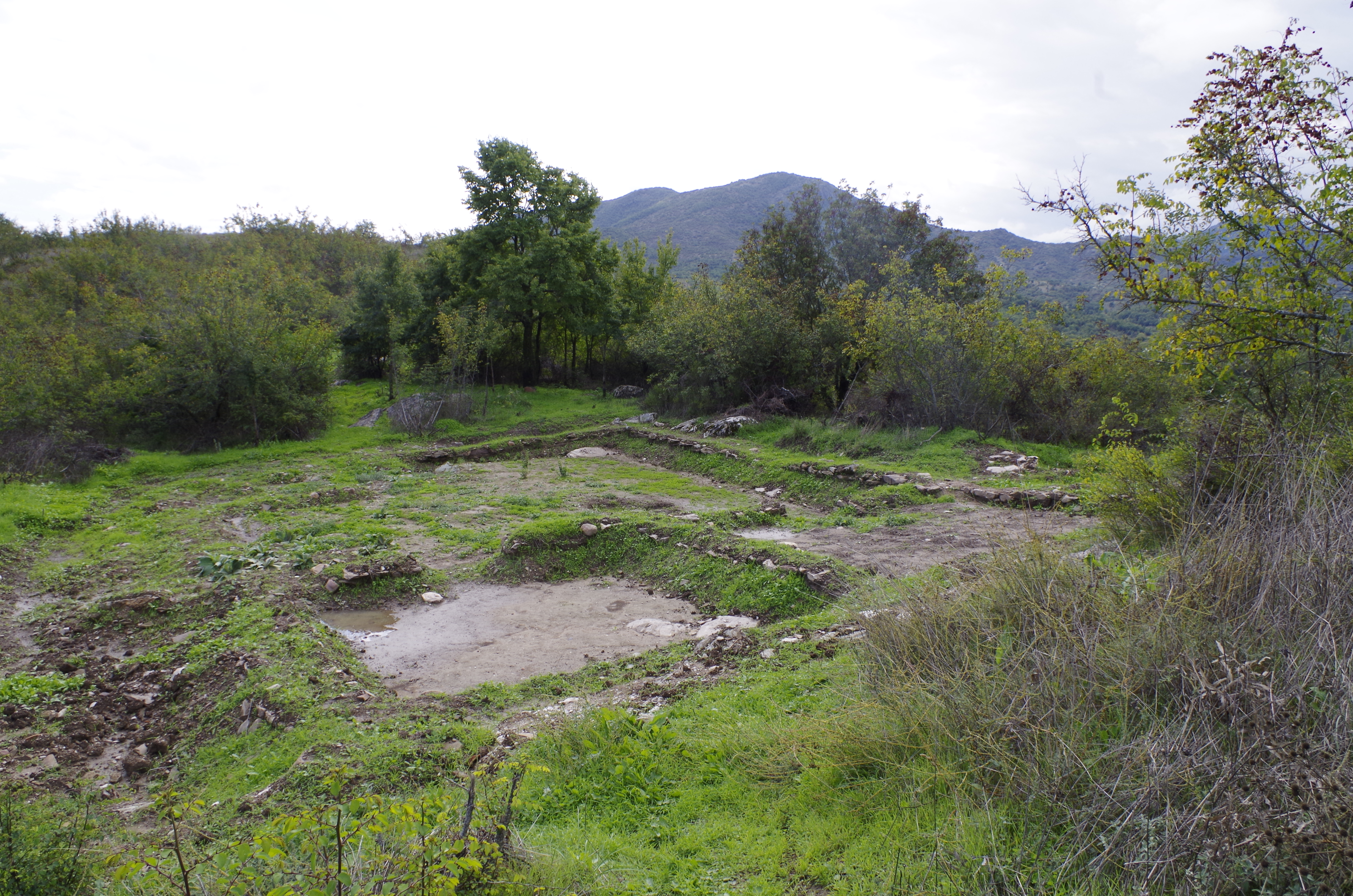 Archaeological site Kale near Stari Grad, Macedonia